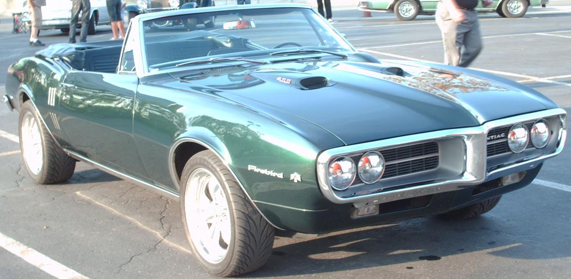 1967 Pontiac Firebird convertible photographed in Montreal, Quebec, Canada at Gibeau Orange Julep.